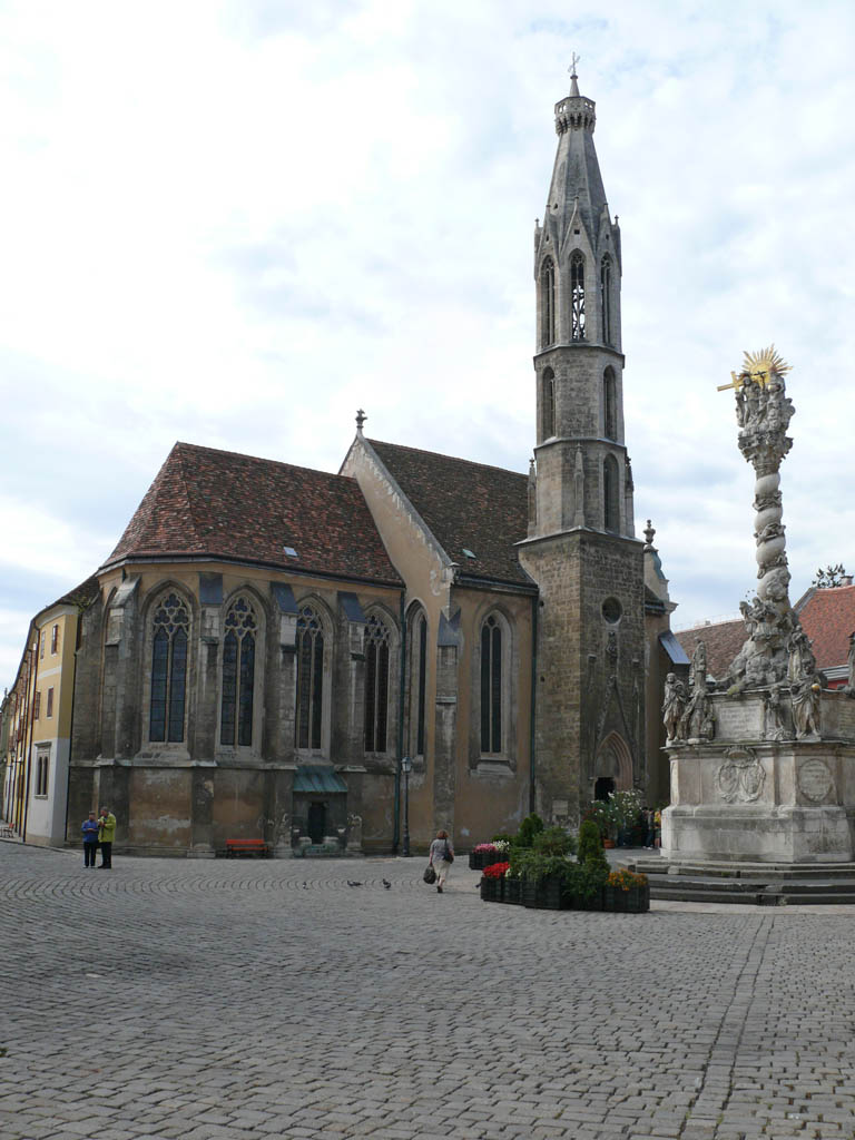 Goat Church